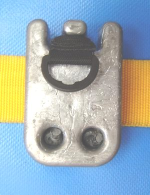 Front view of a clip-on diving weight (1,5kg) attached to a webbing harness strap